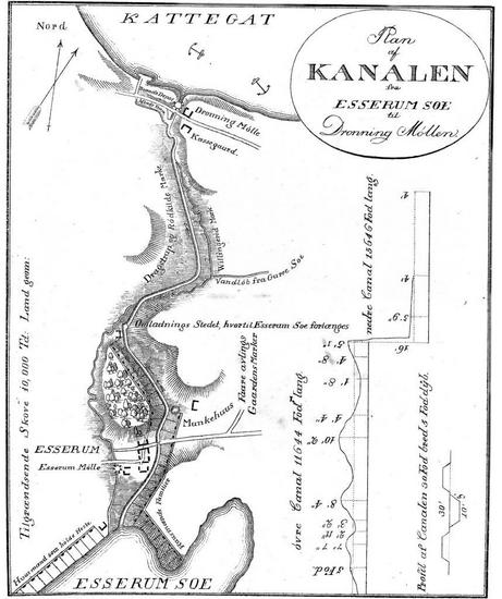 mAP SHOWING Esrum Canal IN Nordsjælland, dENMARK